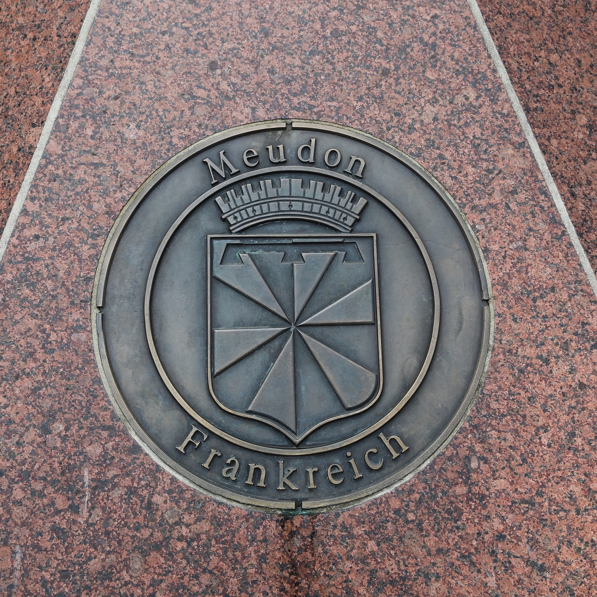 Meudon is one of the twinned towns / sister cities of Celle in the North of Germany. Placed at a work of art with the further seals of her twinned towns. Inserted in polished granite of a multilateral similar to pyramid polygon (see survey photography)